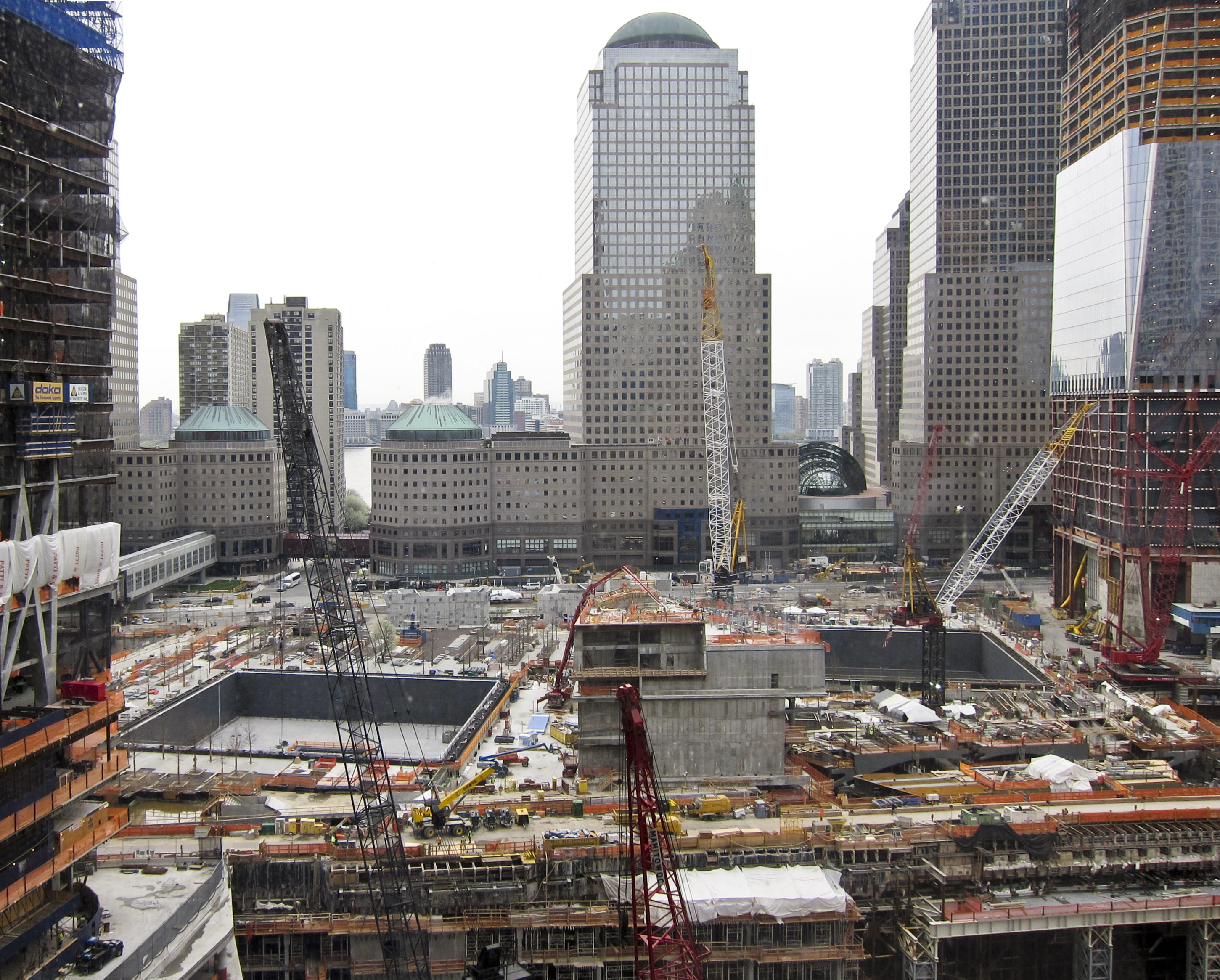 World Trade Center site, "Ground zero", Lower Manhattan, New York, USA.